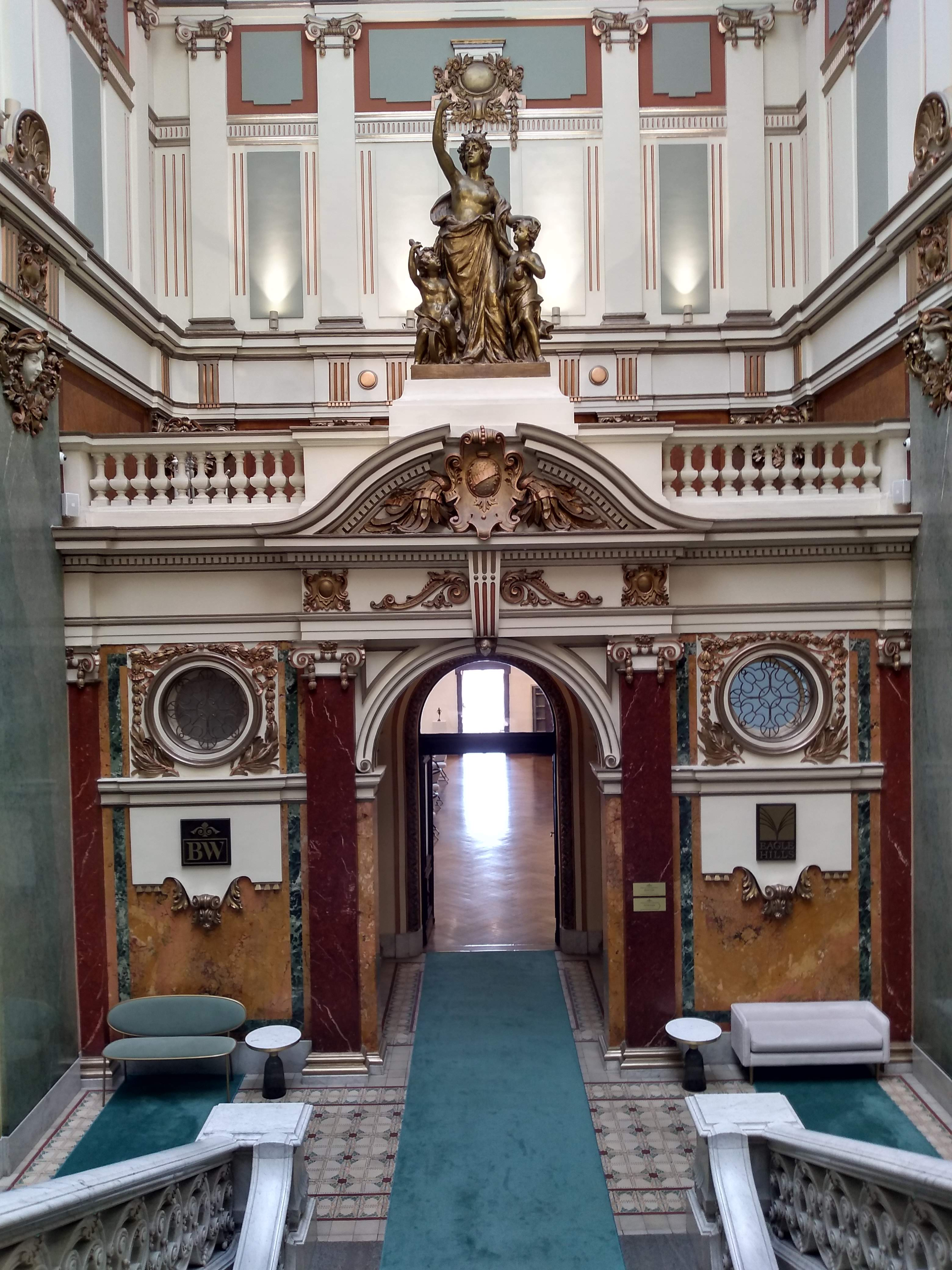 Entrance to the Belgrade Cooperative building, view from the gallery on the first floor